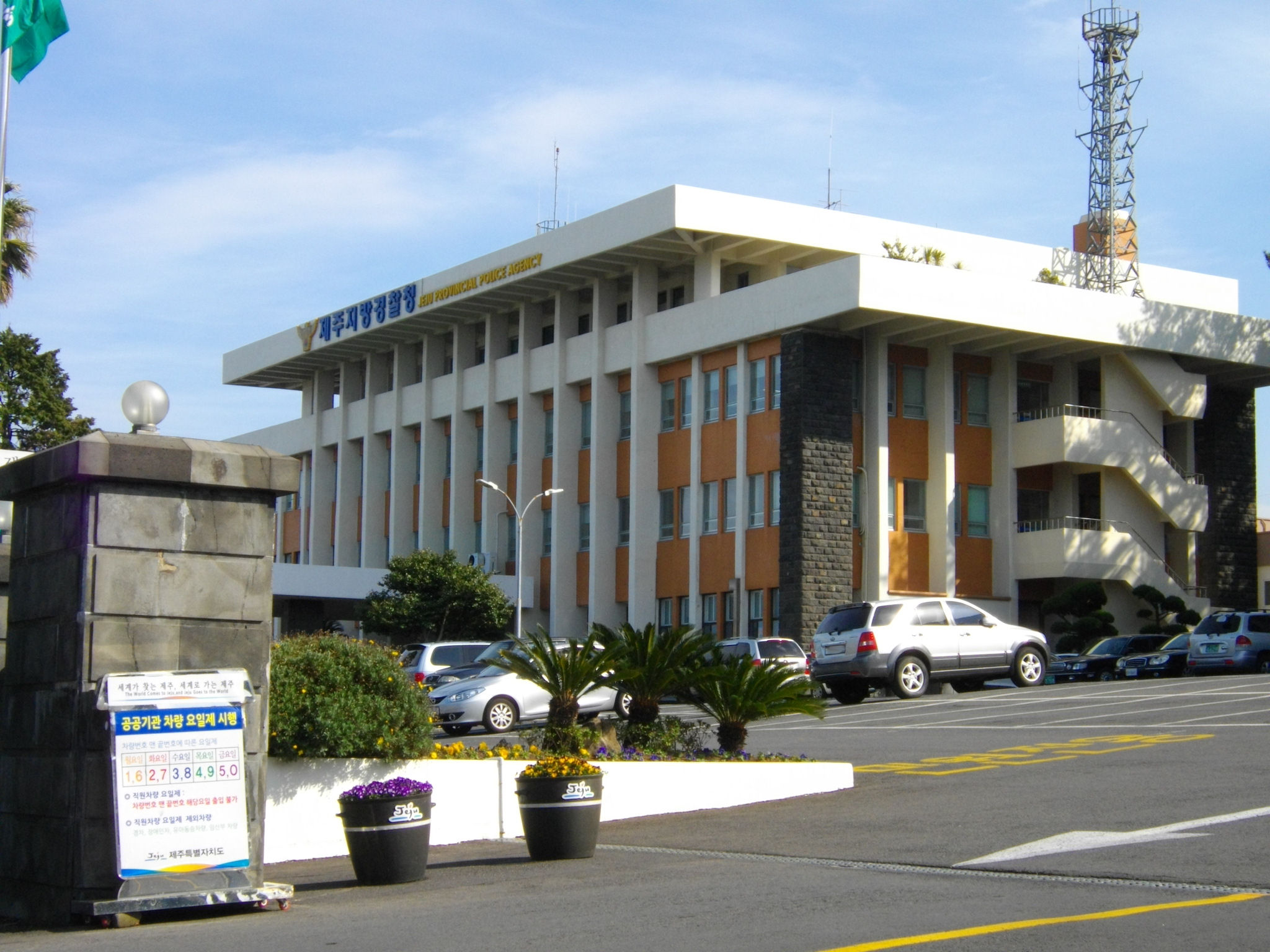 Jeju Provincial Police Agency